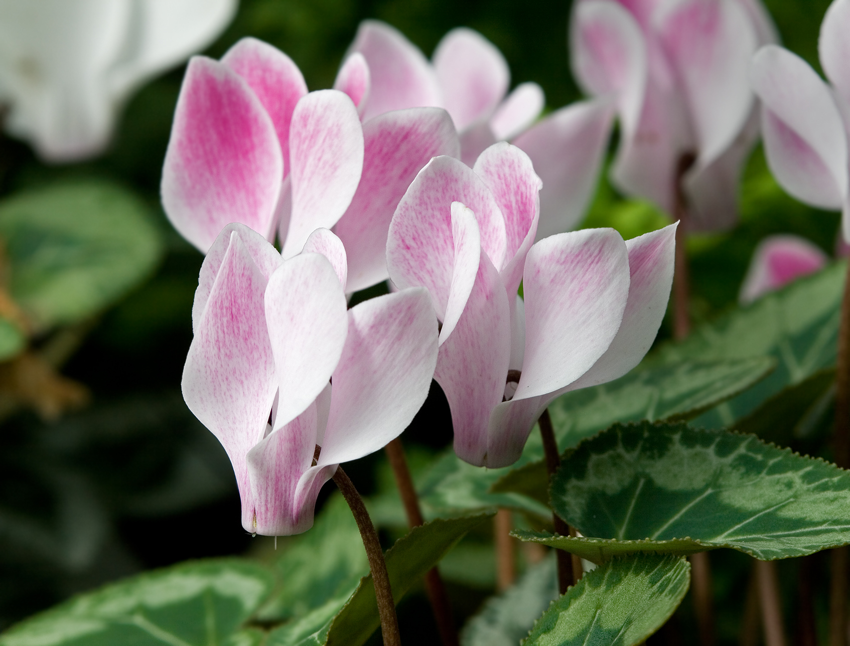 Cyclamen 'Stirling', Royal Tasmanian Botanical Gardens, Tasmania, Australia Camera data Camera Canon EOS 400D Lens Tamron EF 180mm f3.5 1:1 Macro Flash Shoot through umbrella left Focal length 180 mm Aperture f/9 Exposure time 1/6 s Sensivity ISO 100